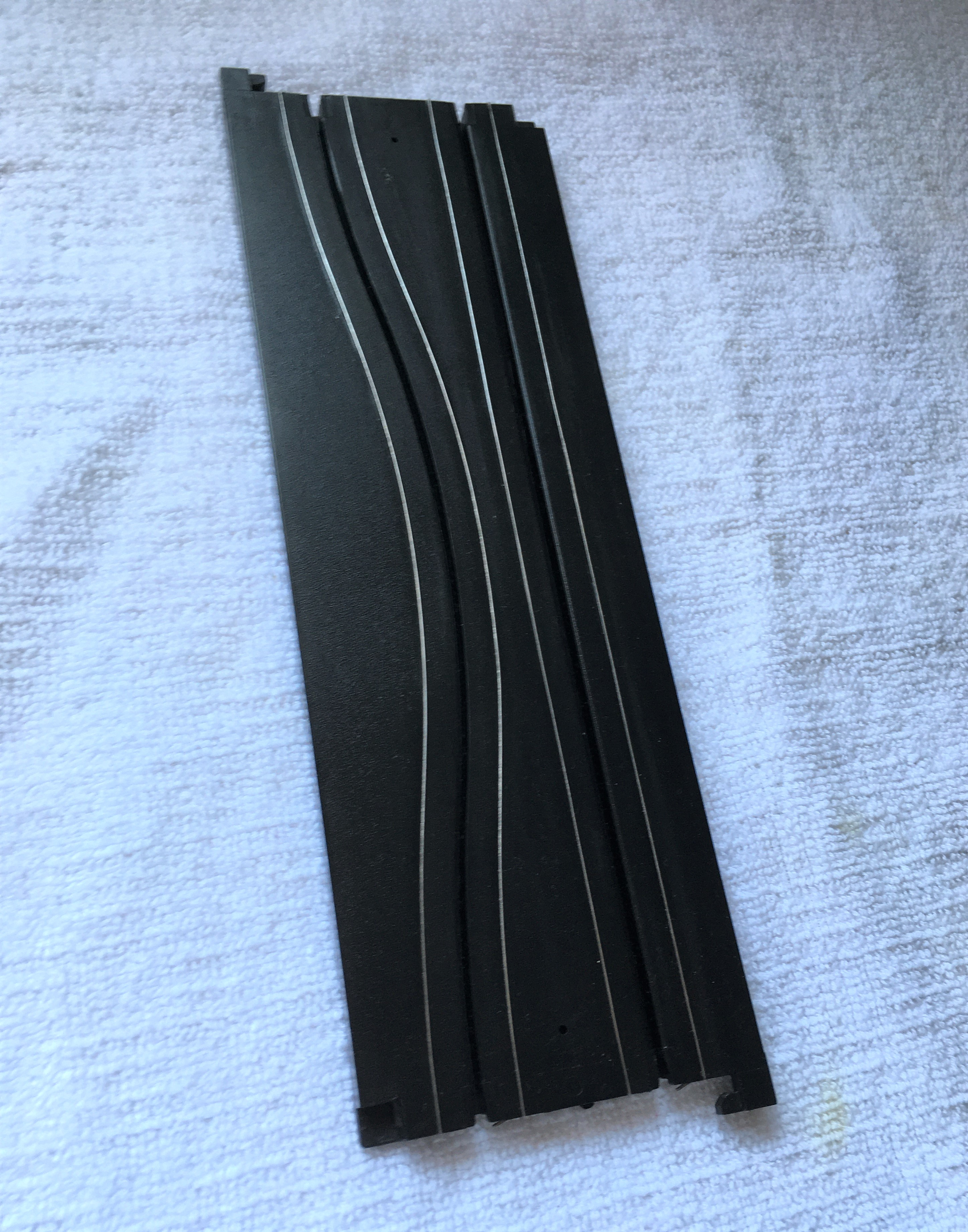 AFX 9" "Squeeze" track